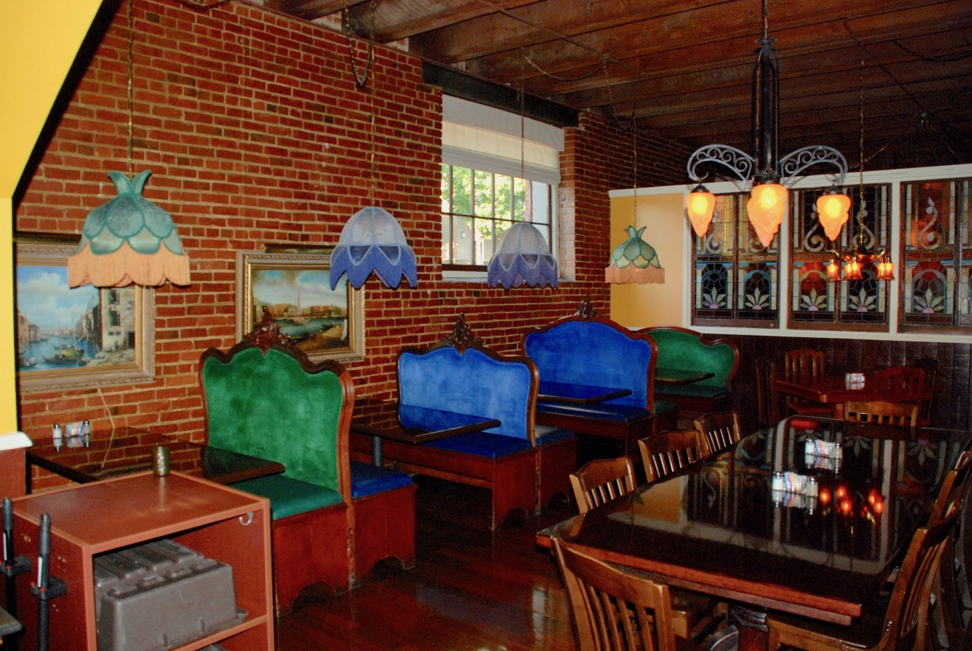 Interior view of the Seattle location of The Old Spaghetti Factory, which opened in 1970 and was the chain's second location (after Portland) but closed in 2016. This room was an extra space, for use at busy times but not in use on this Thursday night.